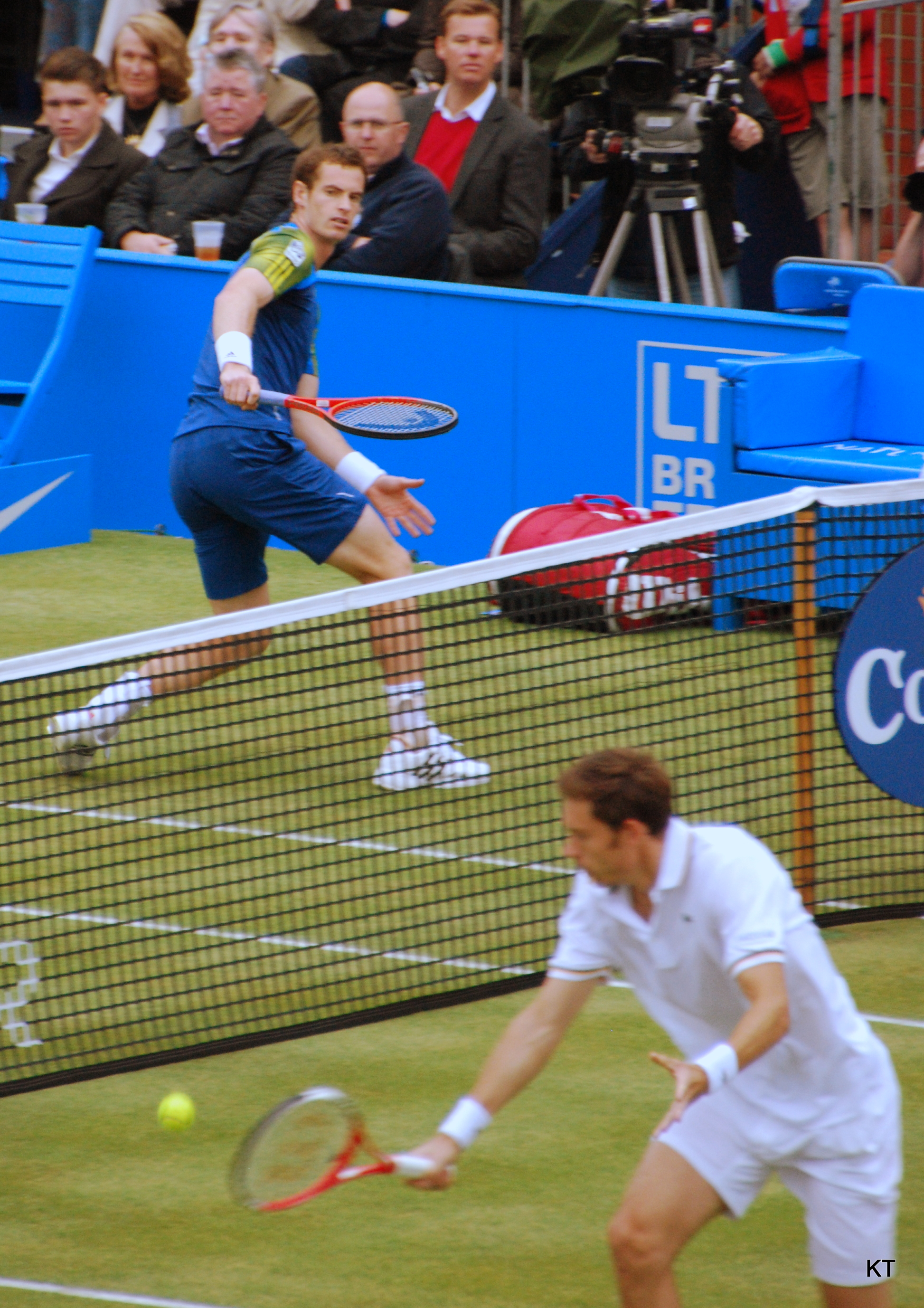 Engage in a bit of play at the net